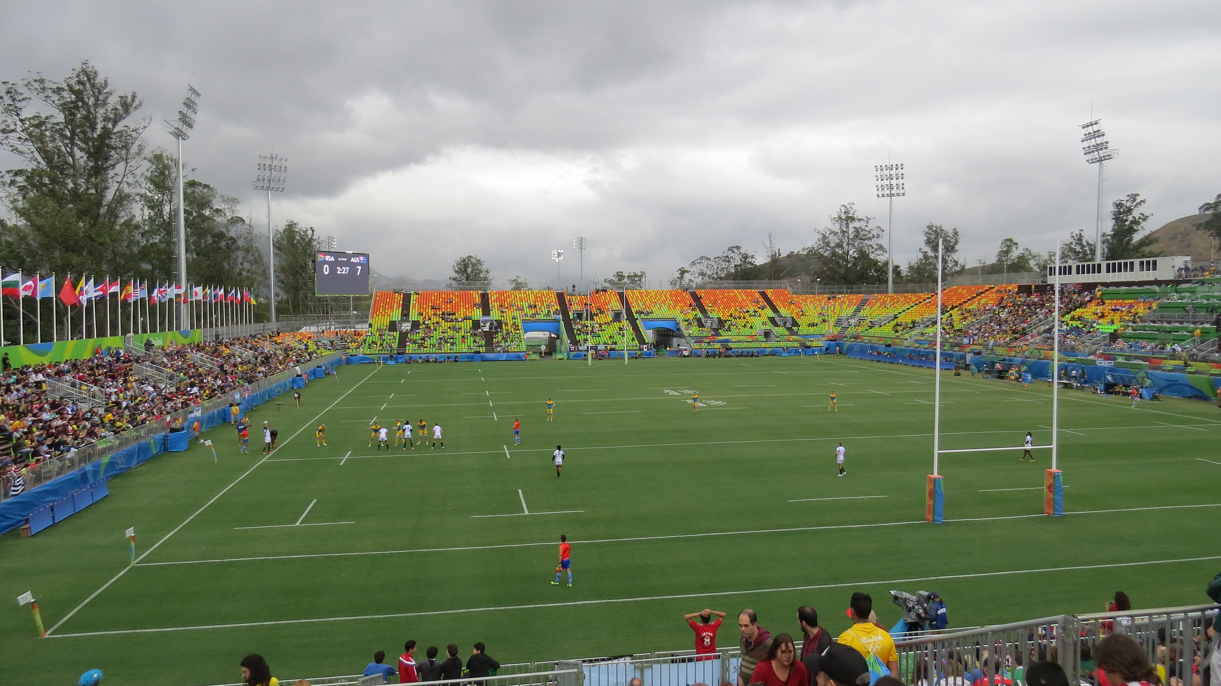 Rio 2016. Rugby 01